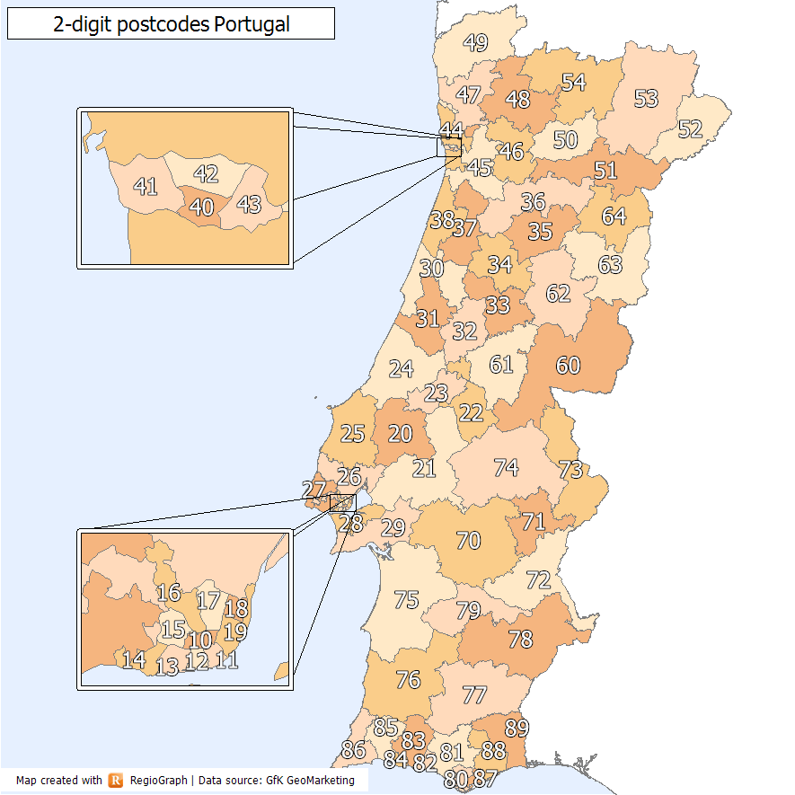 2-digit postcode areas Portugal (defined through the first two postcode digits).